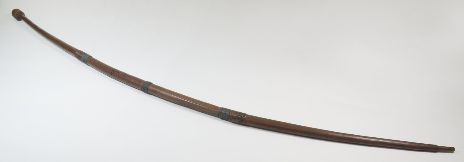 Long Bow, Knob on One End